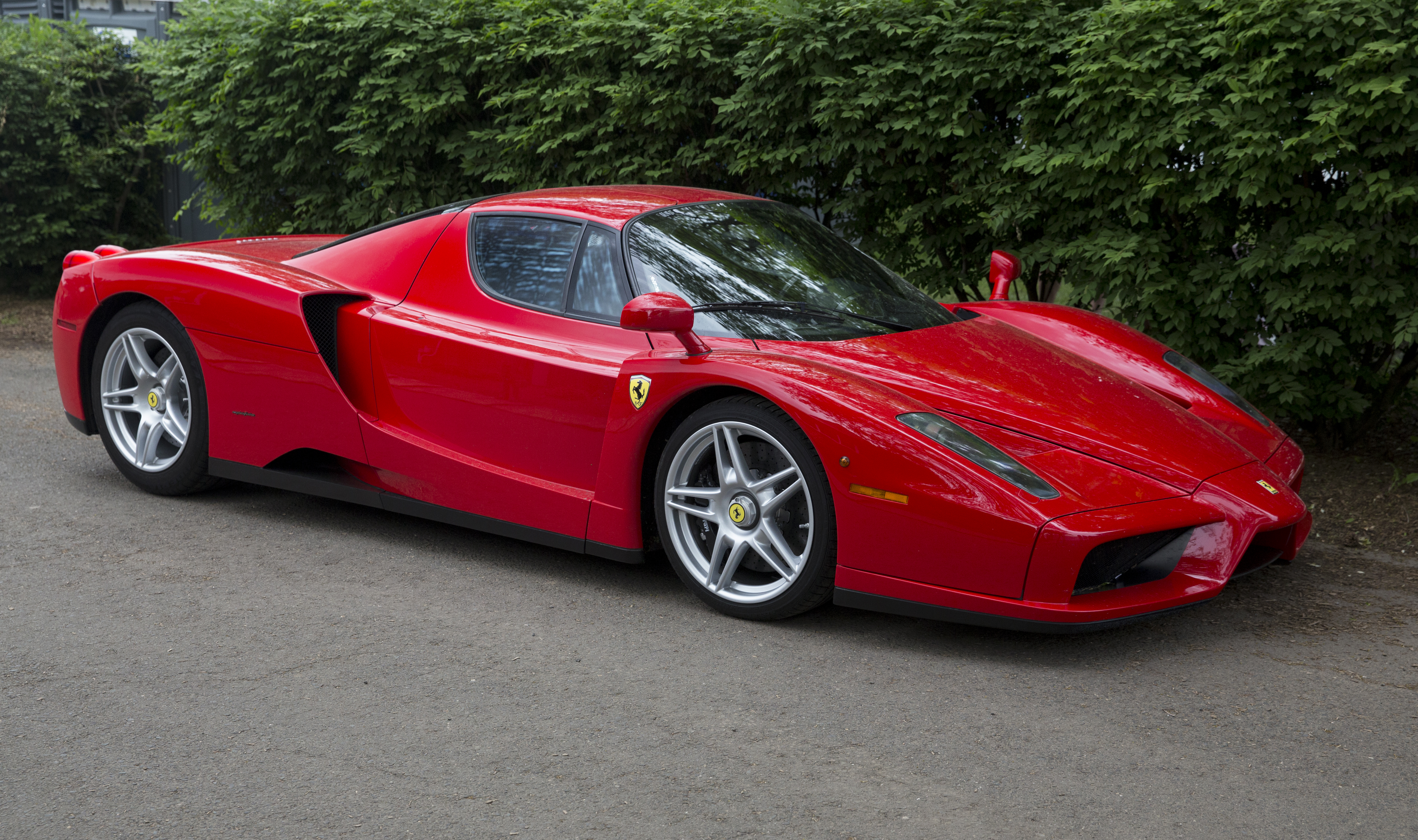 2003 Ferrari Enzo hanging out at the 2018 Greenwich Concours d'Elegance. Belongs to @sharetheenzo, who believes in driving it. The car has racked up over 12K miles, which is pretty high for one of these beasts.